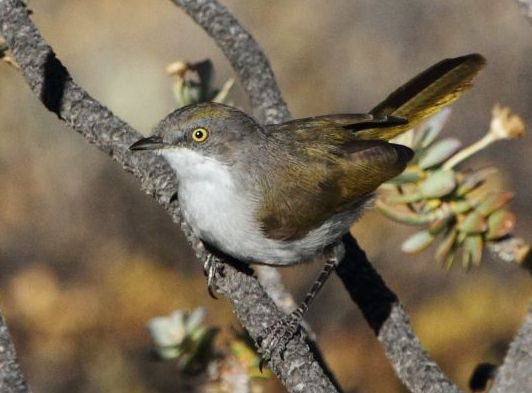 Karoo eremomela Eremomela gregalis; near Sutherland, Northern Cape, South Africa.